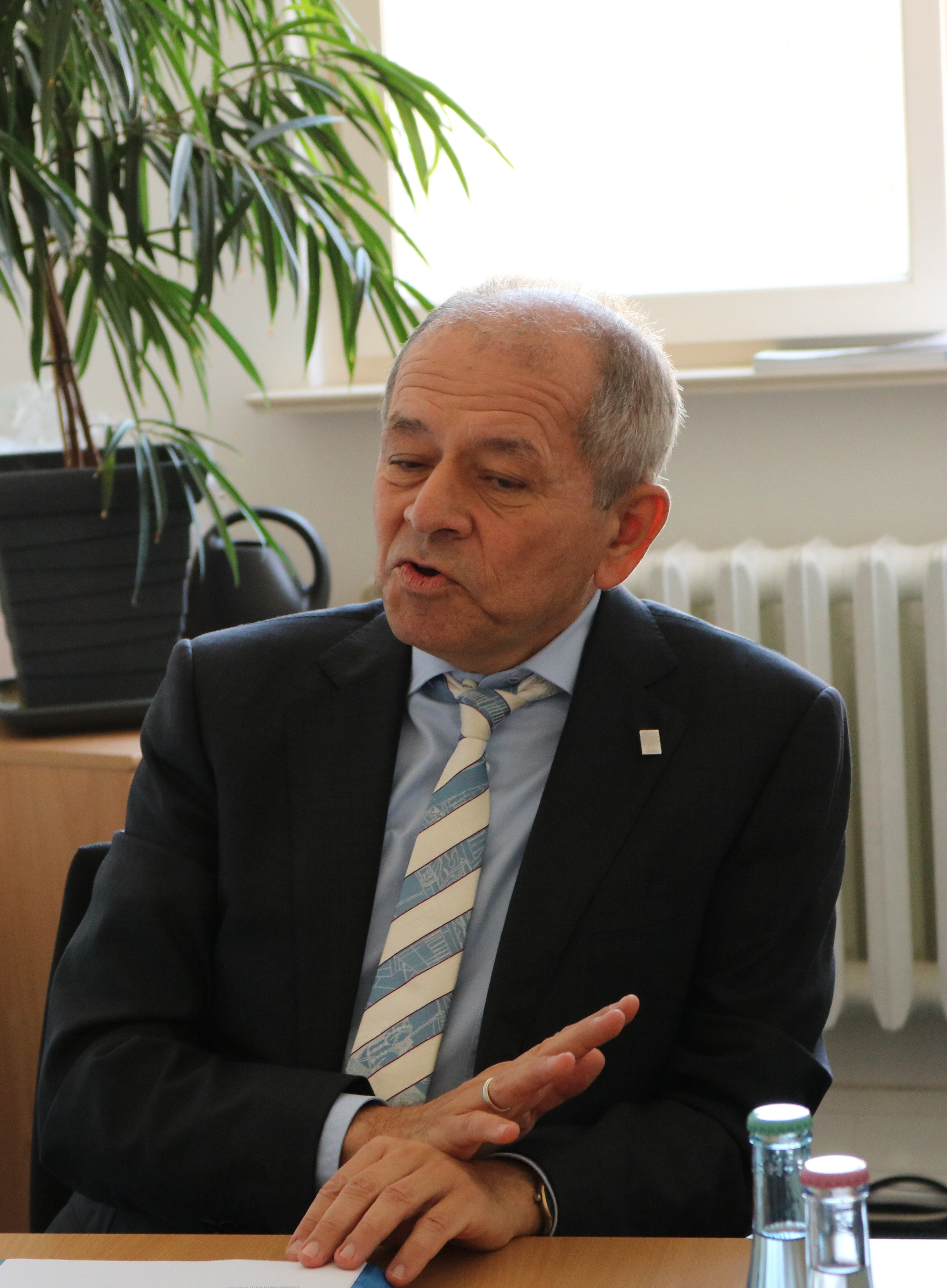 ALLEA President Antonio Loprieno speaks during an interview in Berlin on 6 September 2018. Credit: ALLEA